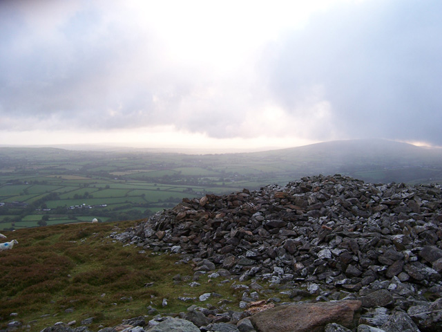 The ancient hill fort of Foeldrygarn, Preseli Mountains The peak of Foeldrygarn (363m) in the Preseli Mountains is the site of an ancient hill fort. The view from the trig point shows part of one of the defensive walls.